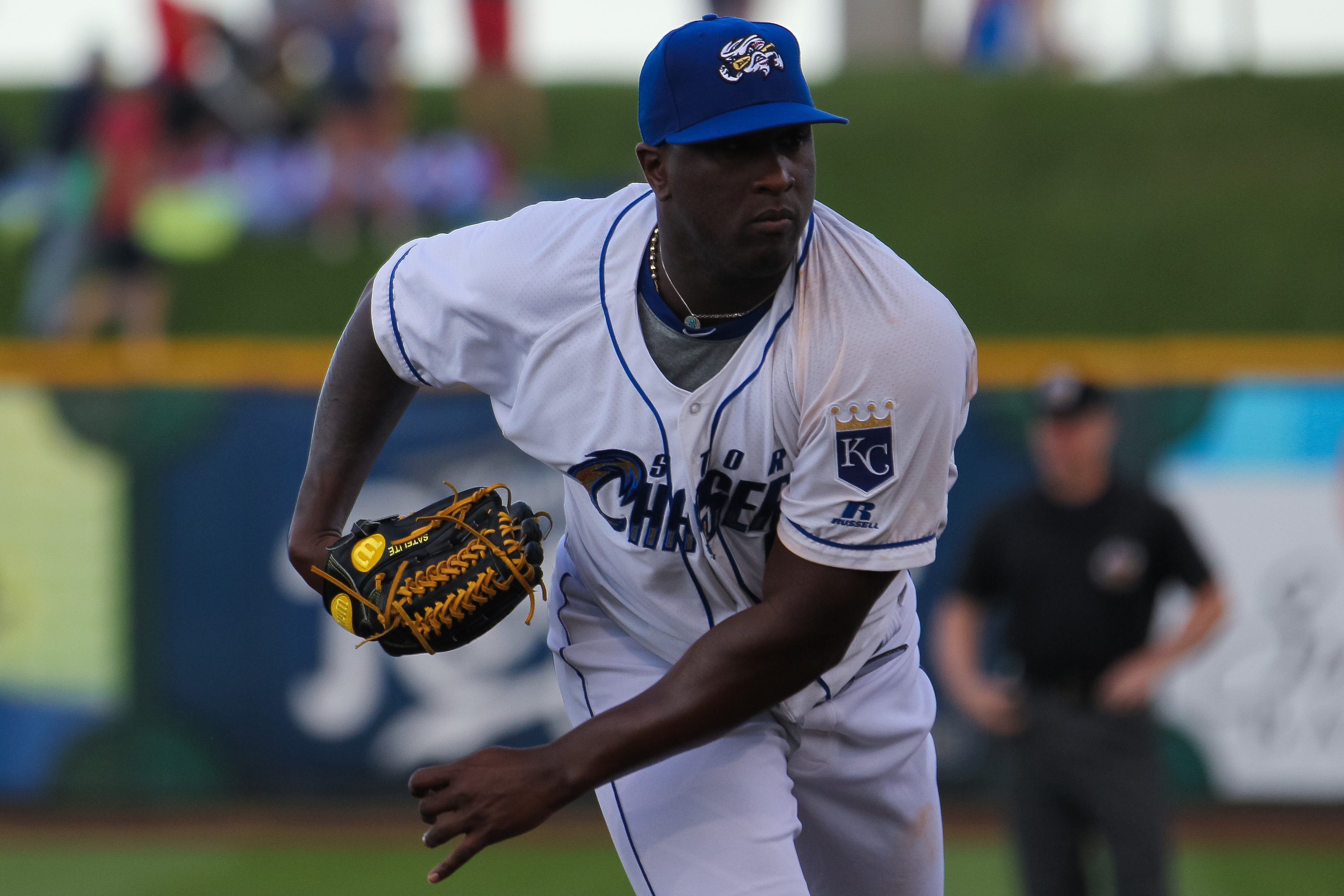 Minda Haas Kuhlmann | 2017 USAGE INSTRUCTIONS: You are welcome to share or publish to your own site or social media account, but you MUST credit me, Minda Haas Kuhlmann, or by my Twitter handle (@minda33) or Instagram (minda.haas).